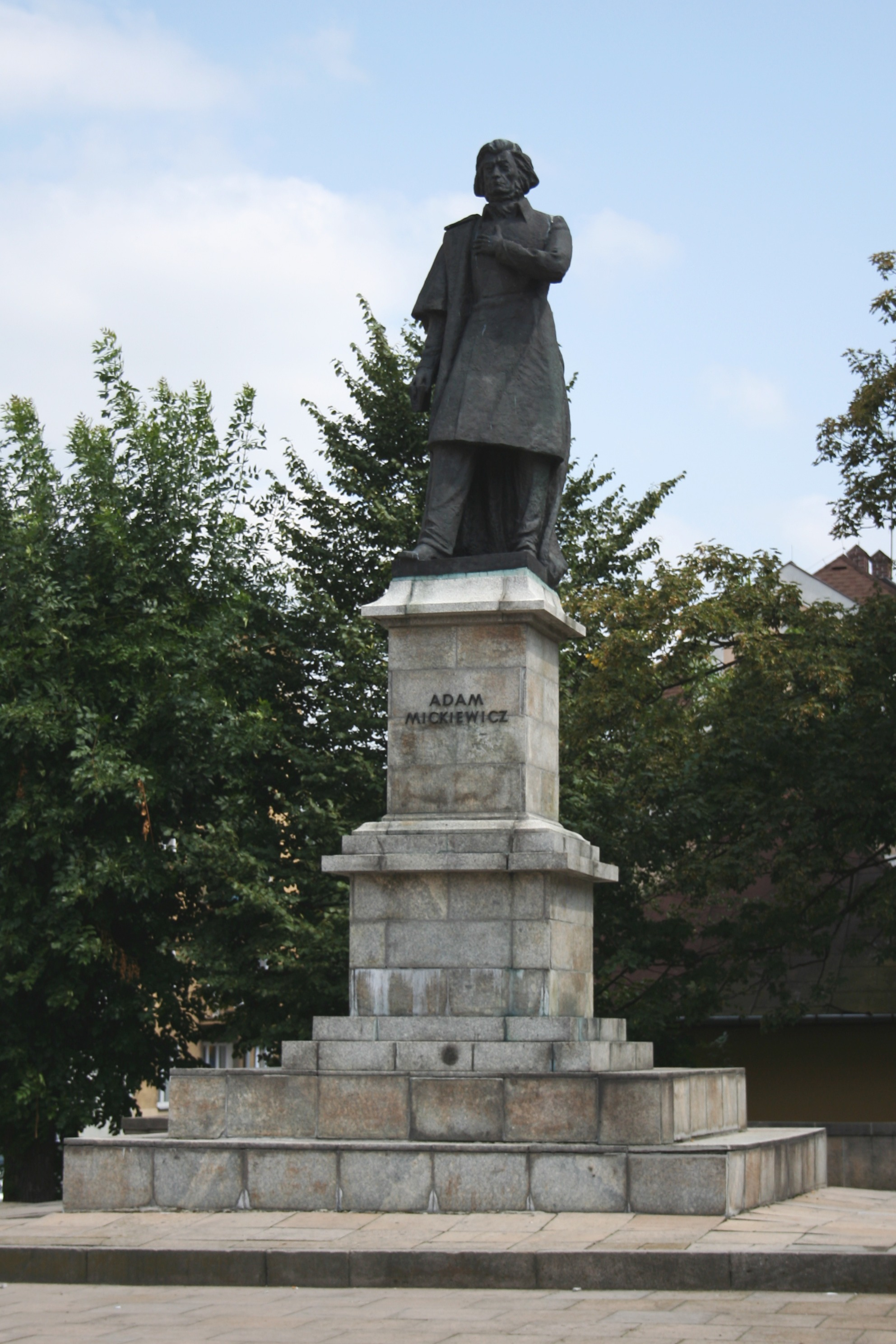 The monument of Mickiewicz in Rzeszow, Poland